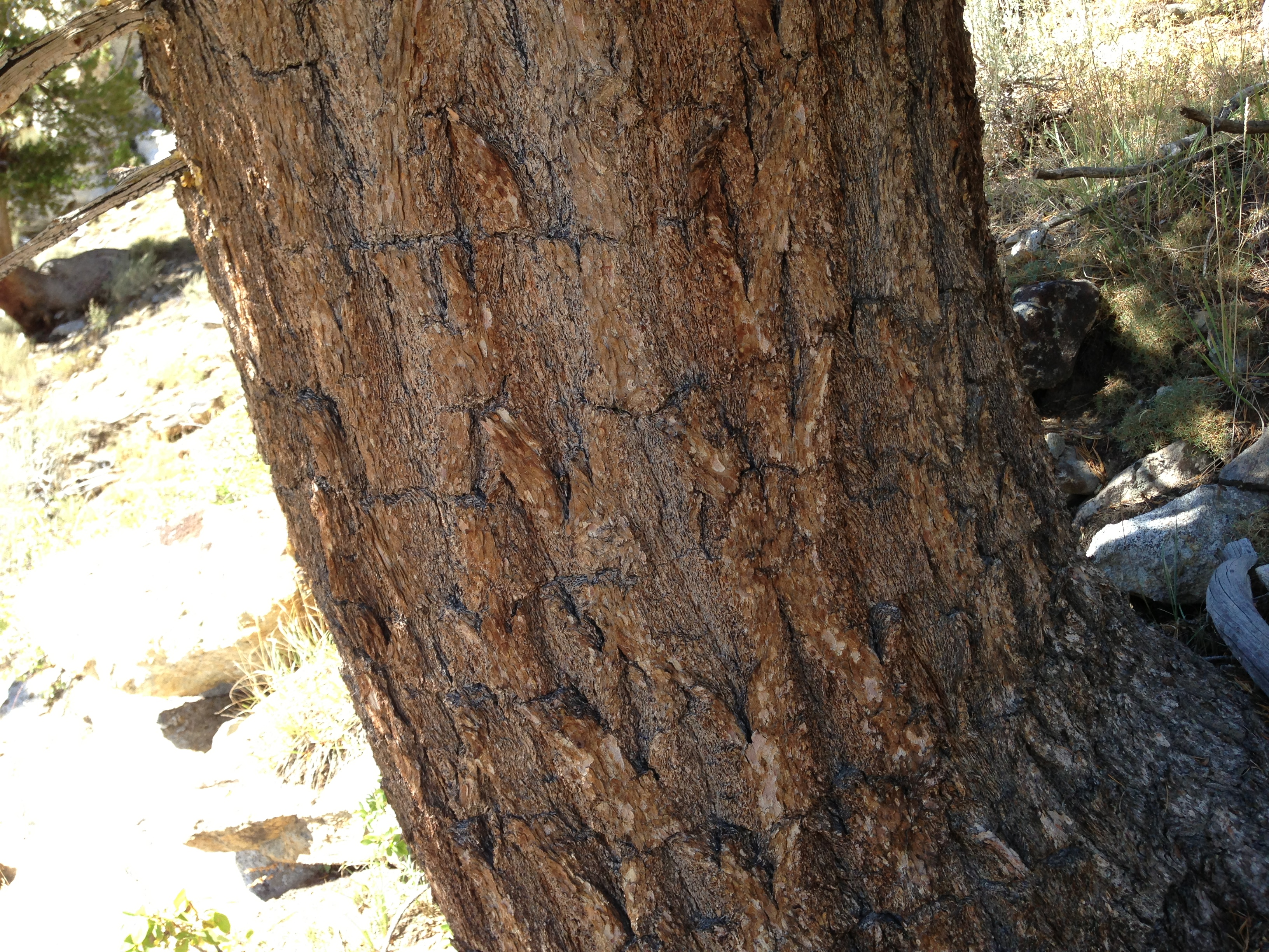 Trunk of a Limber Pine at 9680 feet while descending from Verdi Peaks back to Terraces Picnic Area on the afternoon of September 9th 2013